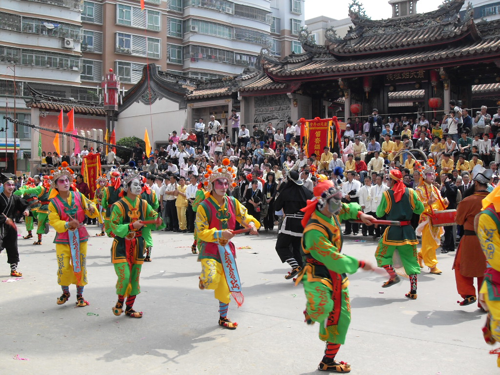 Taoist ceremony at the Xiao ancestral temple of Chaoyang, Shantou, Guangdong.